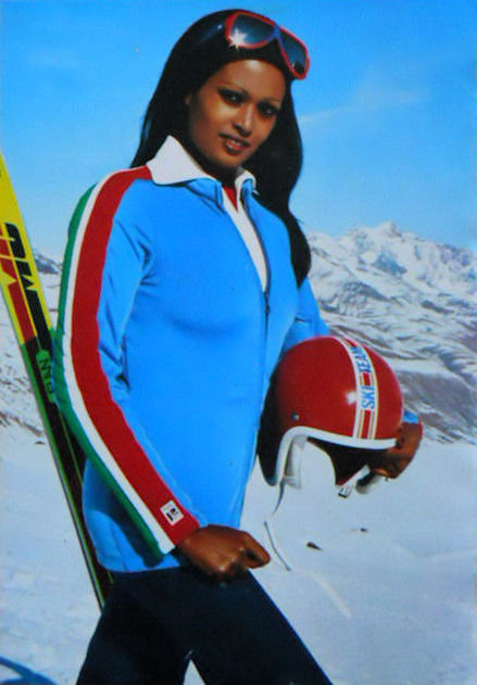 Eritrean-Italian actress Zeudi Araya at Maso Corto (Bolzano, Italy) in the late 1975.